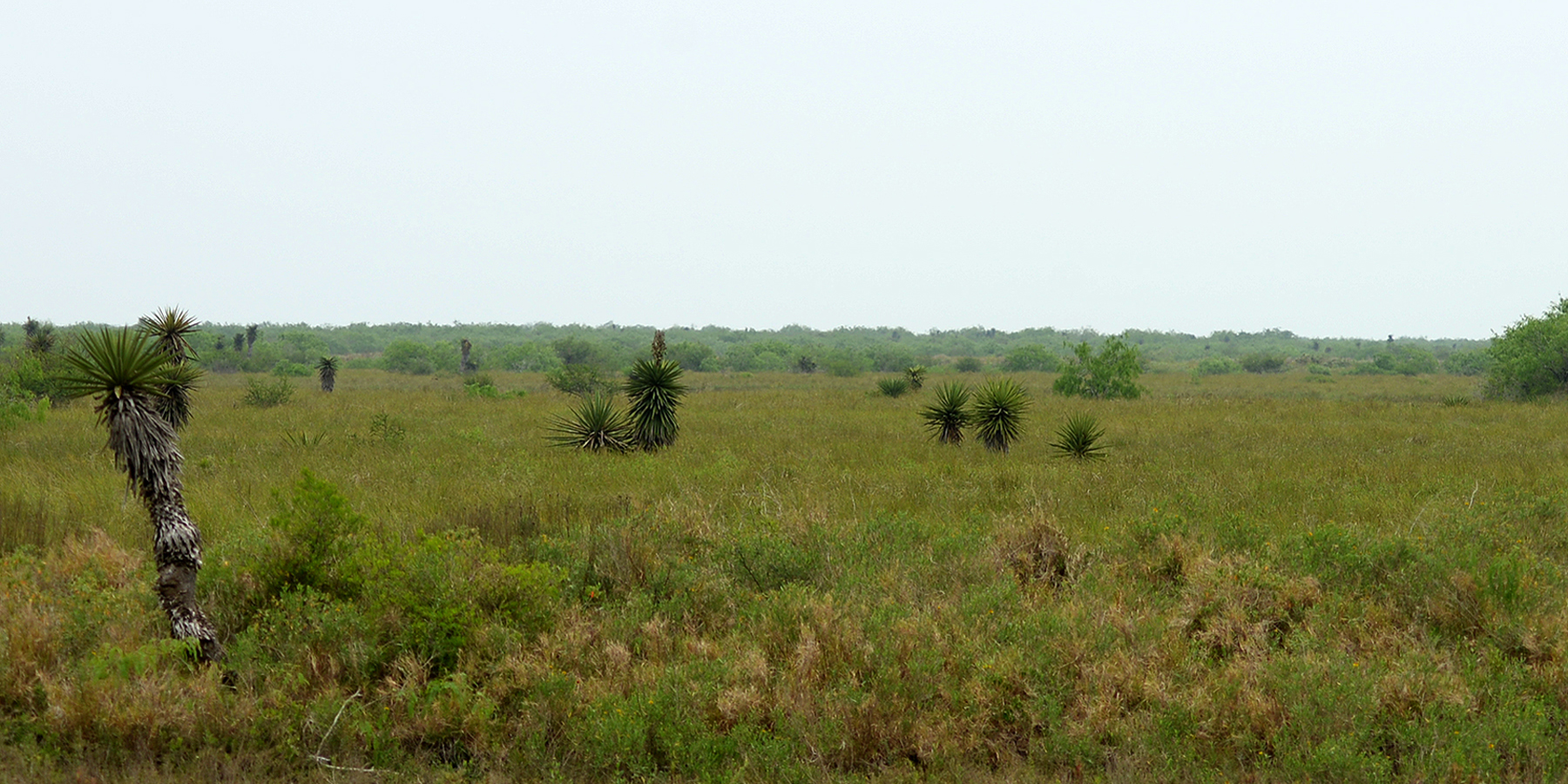 Spanish Dagger (Yucca treculeana) growing in grassland at Laguna Atascosa National Wildlife Refuge showing Gulf coastal grassland and prairie habitat. Cameron County, Texas, USA (26.2237°N, 97.3445°W, 4 m. elev.) Photographed on 12 April 2016. William L. Farr